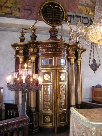 Synagogue of Saluzzo (Italy); the Torah Ark